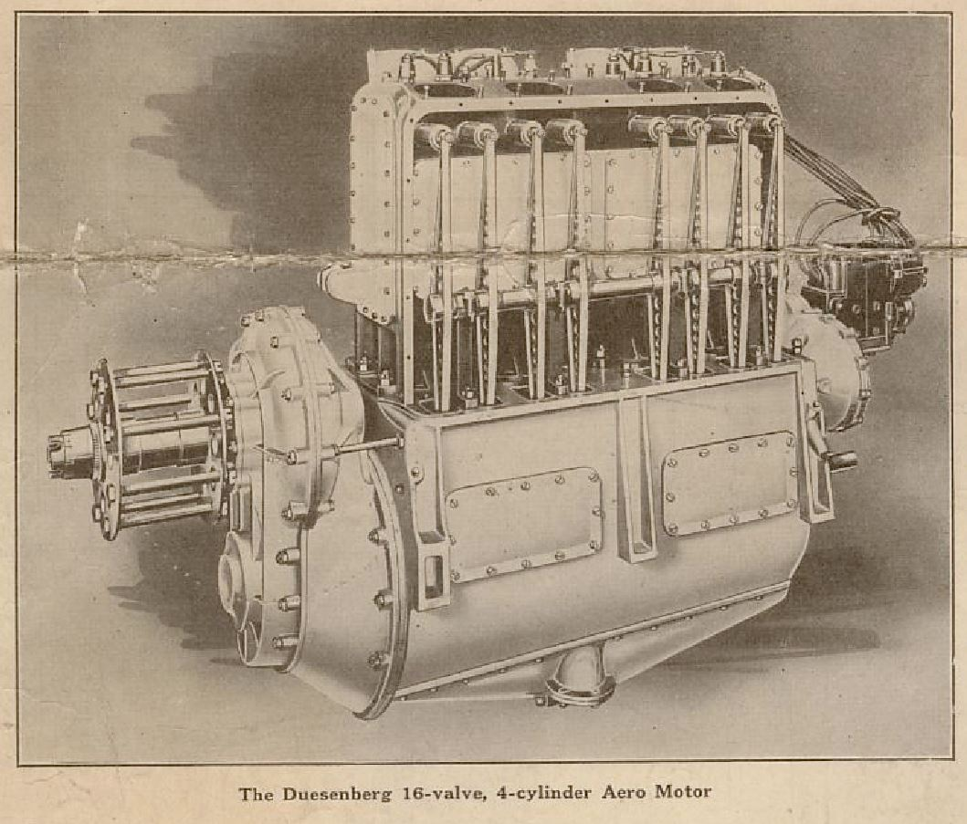 Duesenberg Walking Beam 4 cylinder, 8 valve aircraft engine (1917) as shown in Aerial Age Weekly, 23. April 1917.